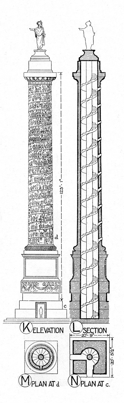 The image in question is in the public domain, so you may use it on Wikipedia. The correct attribution is: Fletcher, Banister. A History of Architecture on the Comparative Method. Sixth edition, rewritten and enlarged. New York: Charles Scribner's Sons, 1921, p. 105. Provided courtesy of Allan Kohl.